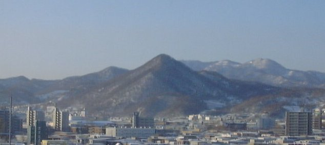 a view of Mt.Sankakuyama in winter